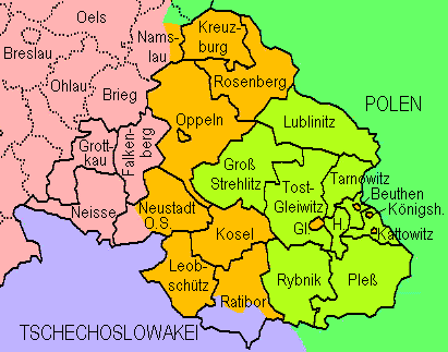 Upper Silesia plebiscite 1921: Lined borders = the German border of 1918 and districts of upper Silesia; dotted = Districts of lower Silesia; lilac = Czechoslovakia inclusive territories received from Germany without plebiscite; green = Poland inclusive territories received from Germany without plebiscite; yellowish green = transferred to Poland after the plebiscite; orange = remaining in Germany after the plebiscite